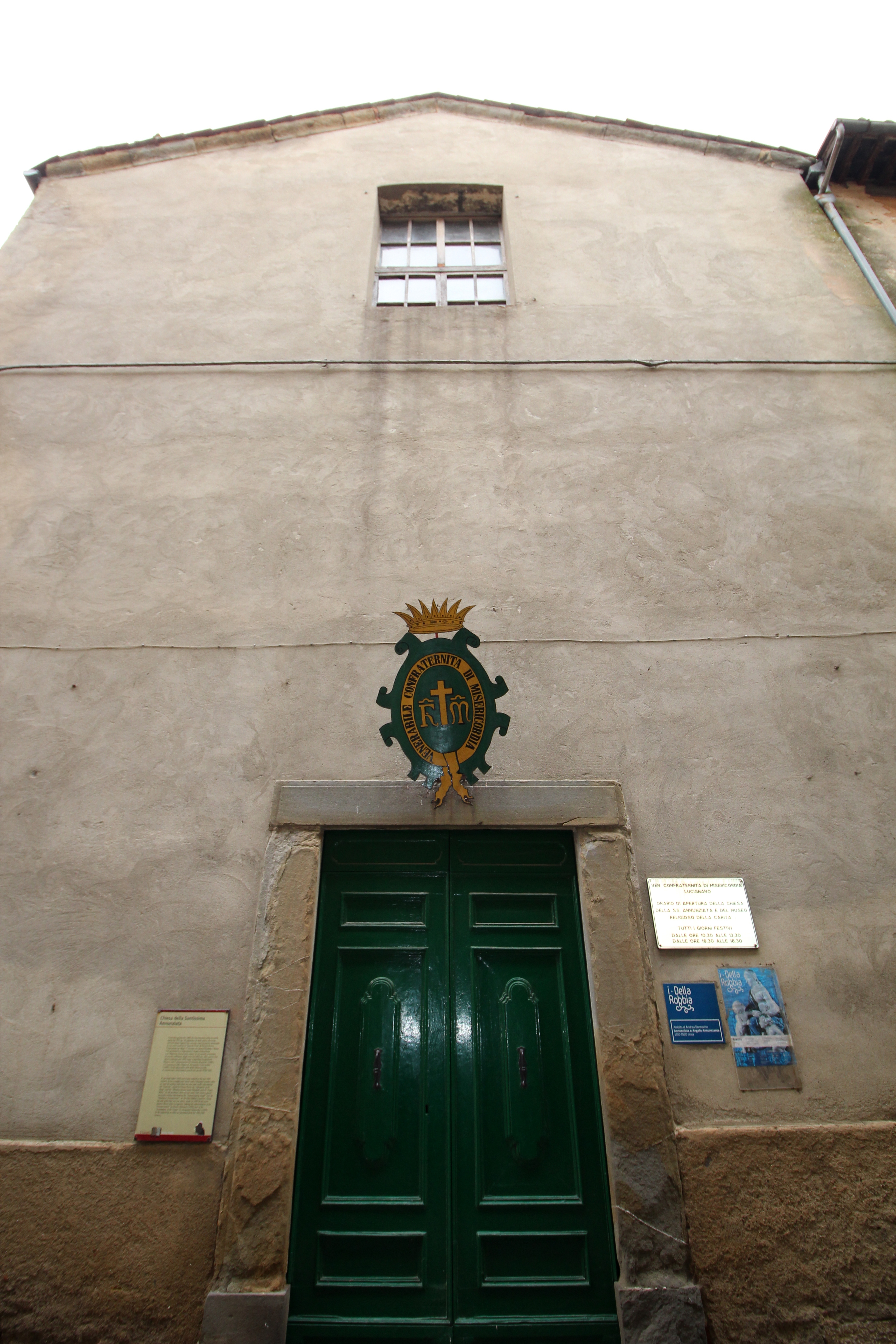 Church Santissima Annunziata, also called della Misericordia, historical center of Lucignano (della Chiana), Province of Arezzo, Tuscany, Italy